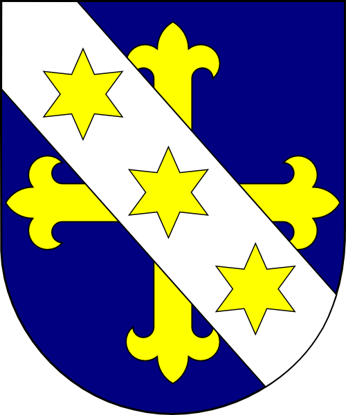 Coat of arms (shield only) of Josef Jan Evangelista Hais, bishop of Hradec Králové, Czech Republic (1875 - 1892). Version used in earlier years.